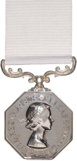 Photo: ©Copyright 1980 Subritzky Collection